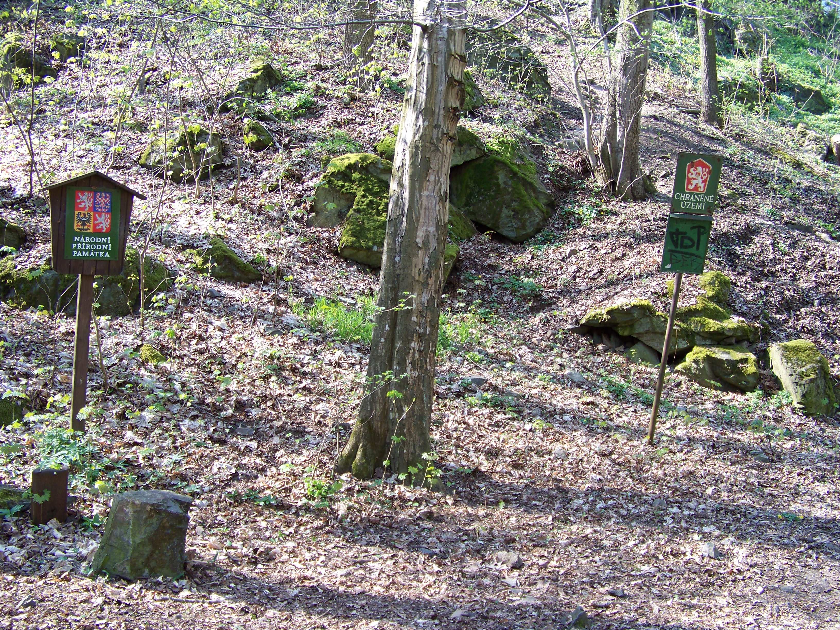 Hradištko-Pikovice, Central Bohemian Region, the Czech Republic. Signs of nature reserve of Medník.